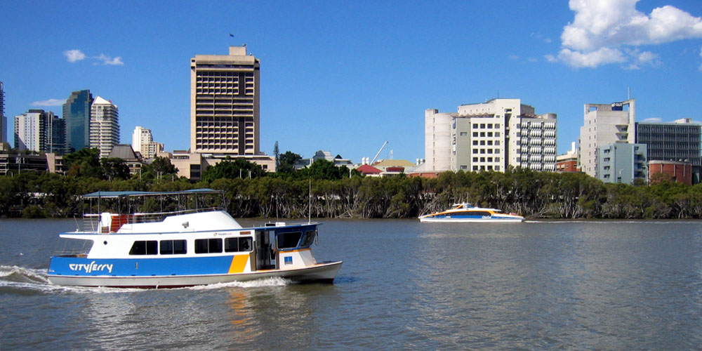 A CityFerry in Brisbane, Australia